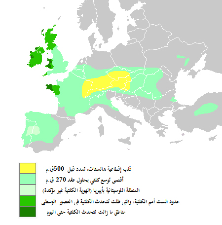 Celts in Europe